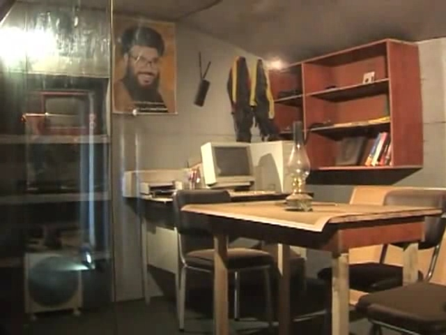 A new tourist attraction in southern Lebanon is causing controversy. It's dedicated to the political party and Shi'ite militia Hezbollah, which controls large swaths of southern Lebanon. Hezbollah fought a month-long war with Israel in 2006, firing deadly rockets at Israeli towns and cities. The museum opened three months ago and already has attracted more than 300,000 visitors. Some critics, though, say it's pure propaganda.